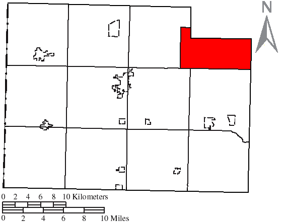 Made by the US Census and modified by myself